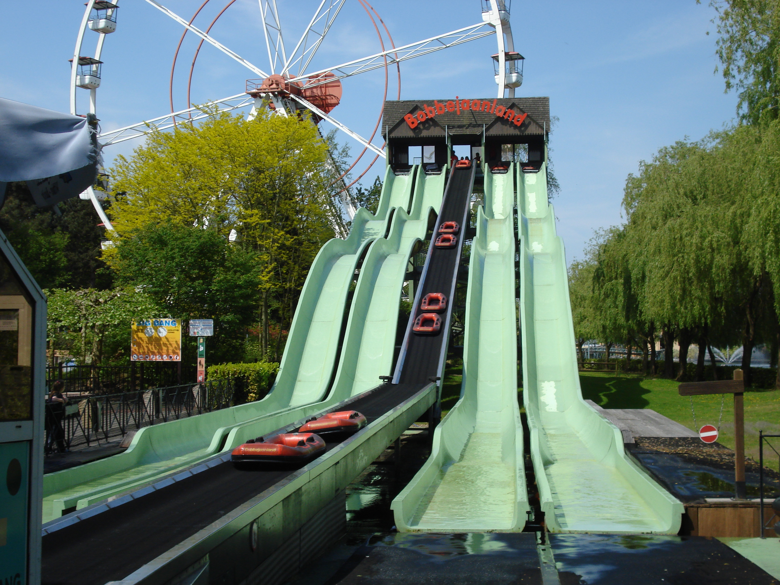 Bobbejaanland Big Bang